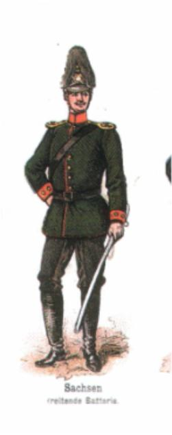 Royal Saxonian Field-Artillery